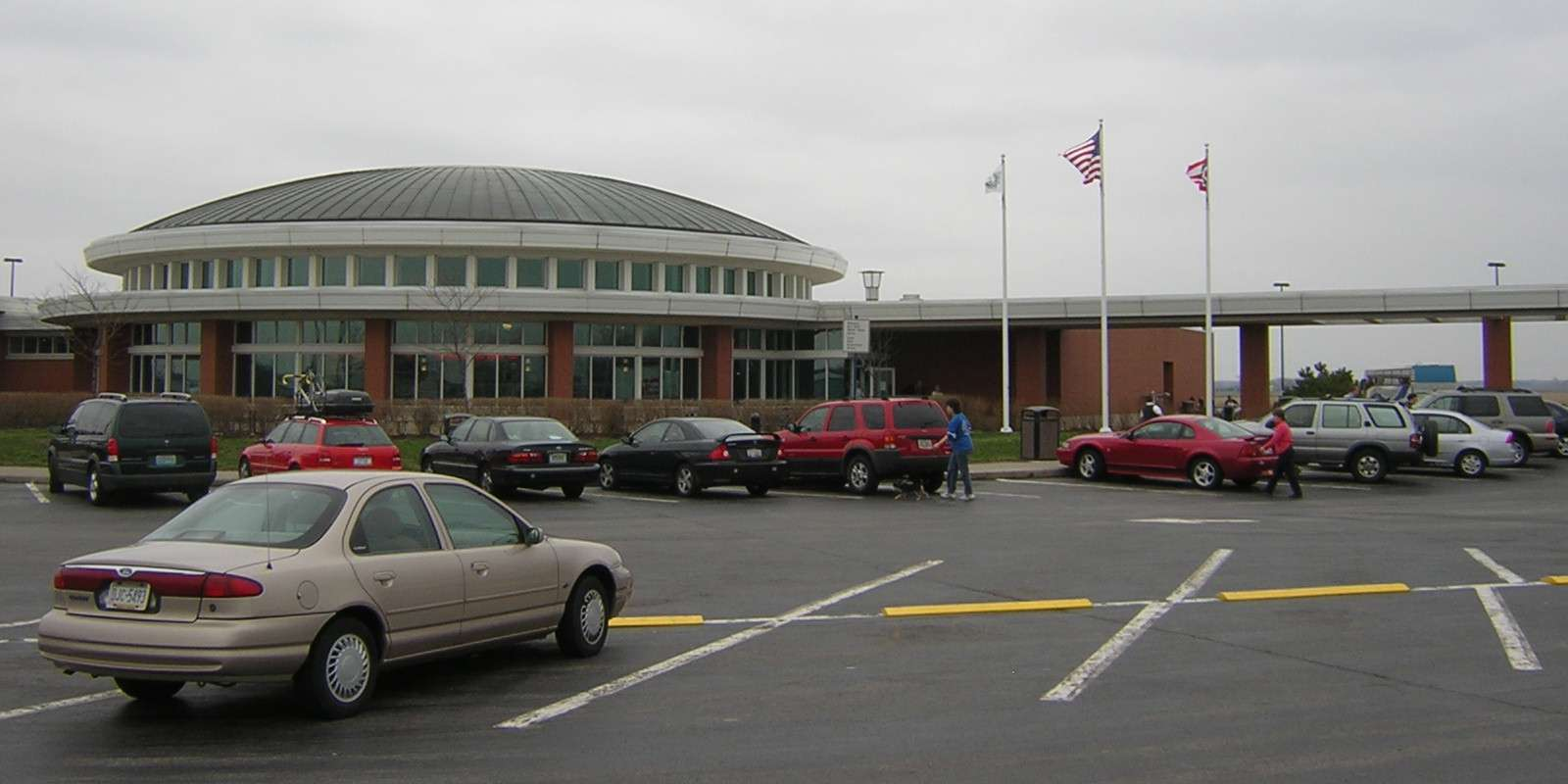 Typical modernized service area. Commodore Perry service plaza on the Ohio Turnpike (Interstate 80) at milepost 100.0 eastbound, Sandusky County, Ohio, United States.